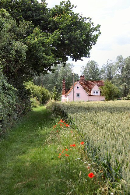 Footpath to Boxted. Poppies line this path which leads to the tiny village of Boxted in Suffolk.